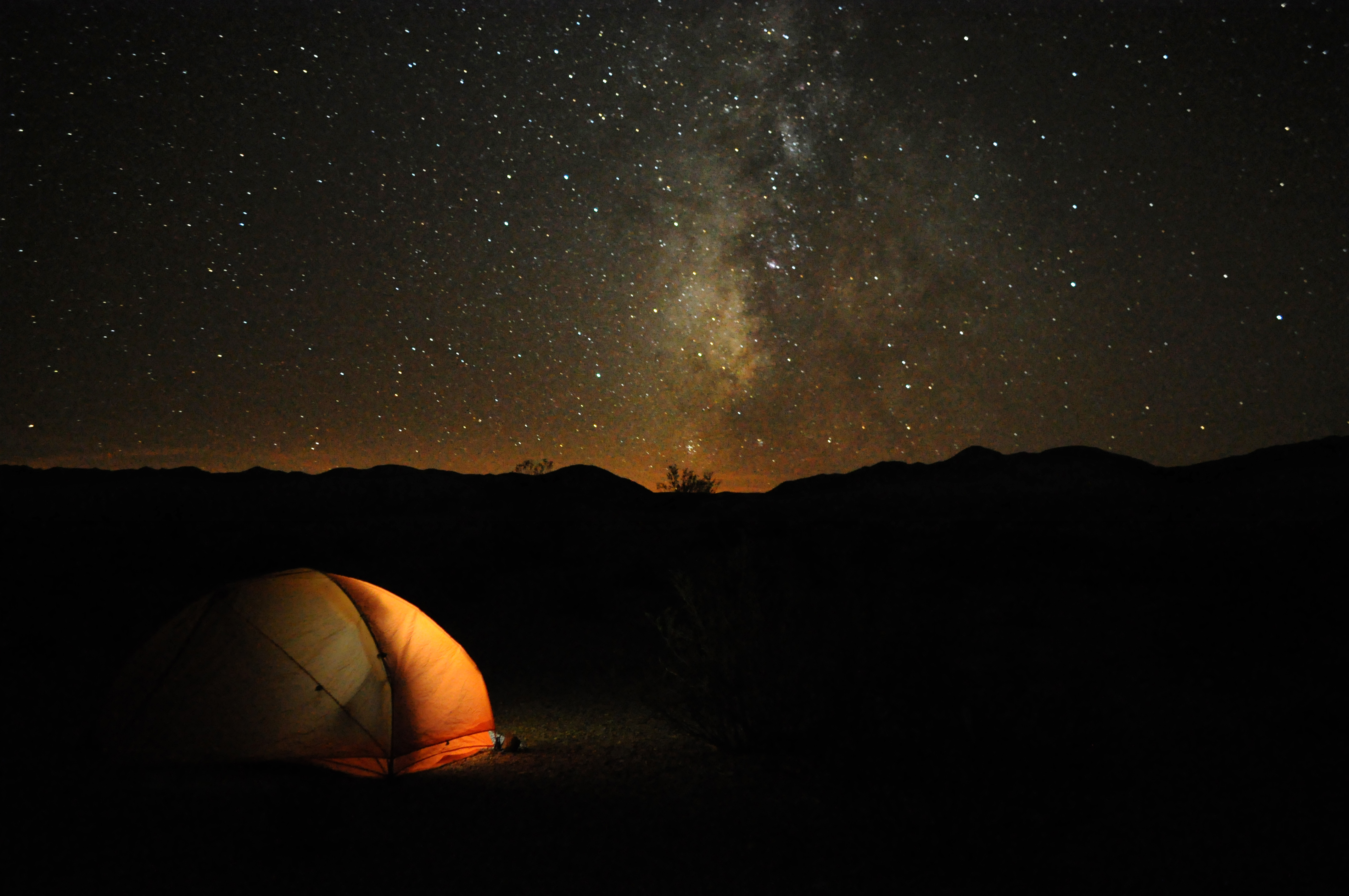 Roadside camping in Death Valley, California